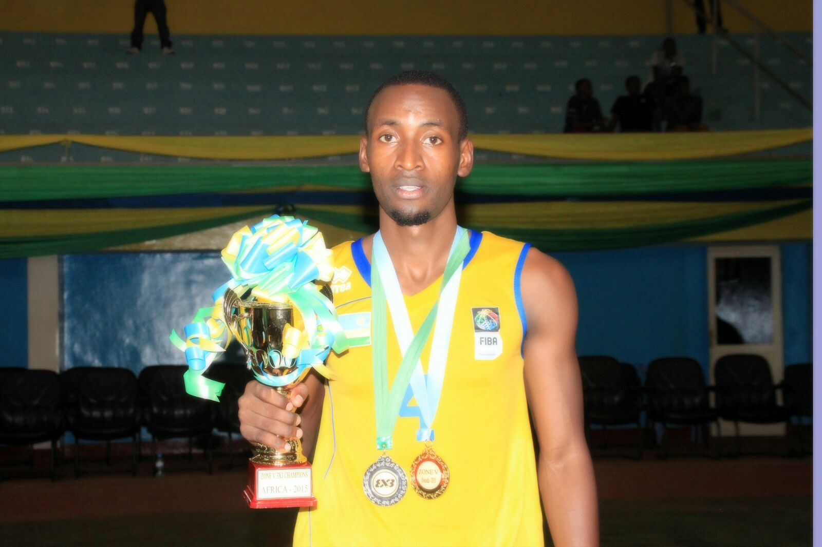 FIBA AFRICA ZONE 5 Kazingufu Ali Kubwimana